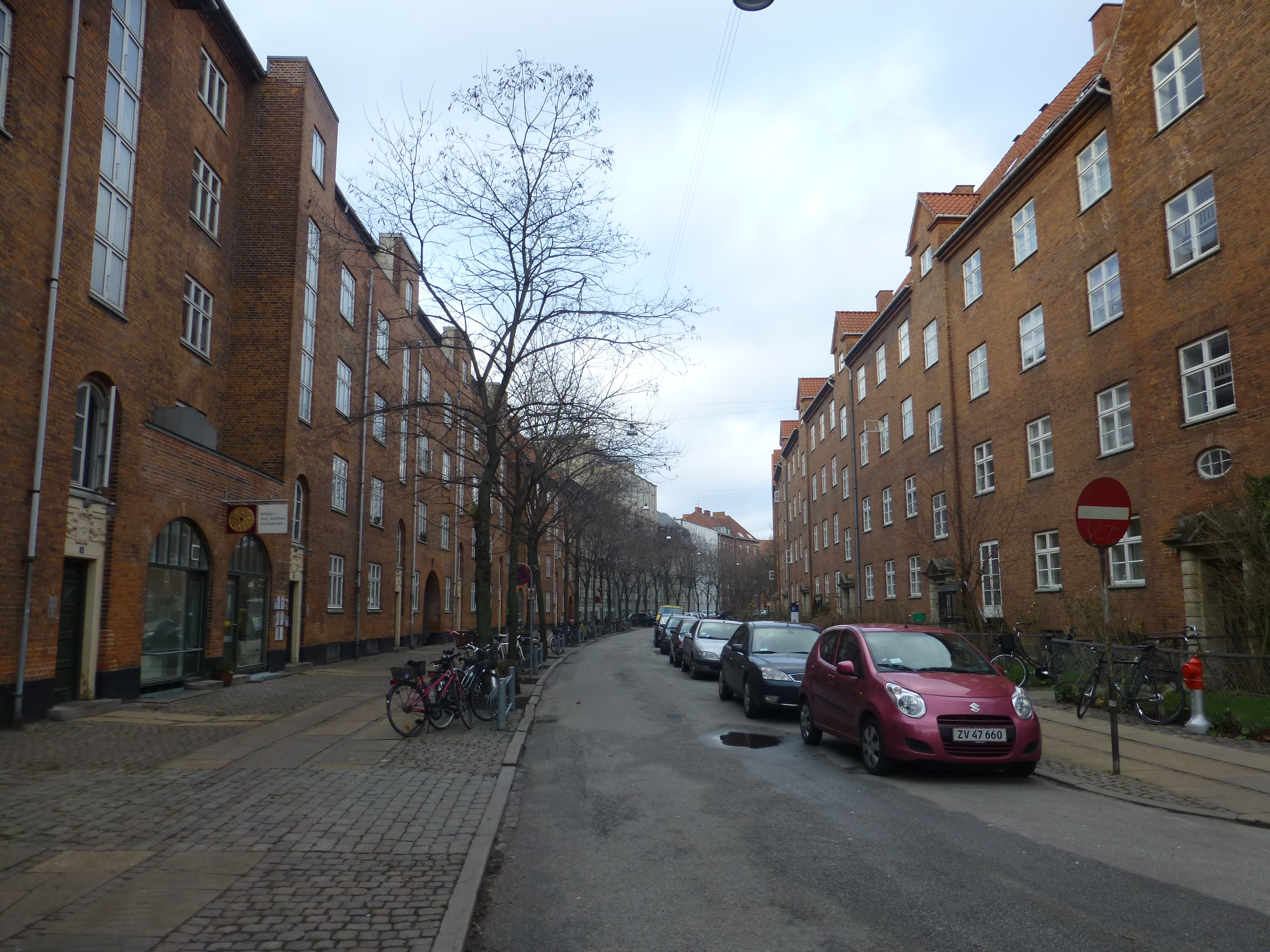 The street Stevnsgade in Nørrebro in Copenhagen.